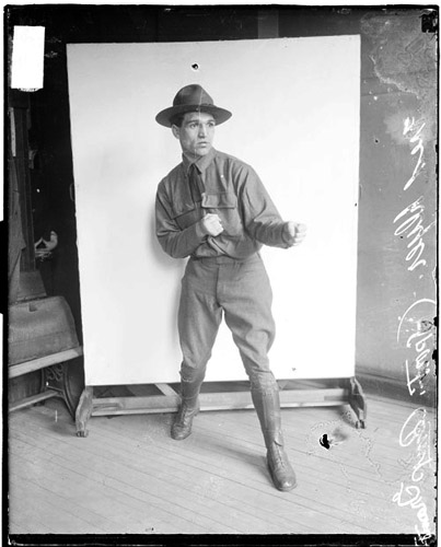 Welsh welterweight boxer Fred Dyer posing in his military uniform during his time as boxing instructor at Camp Grant, Illinois